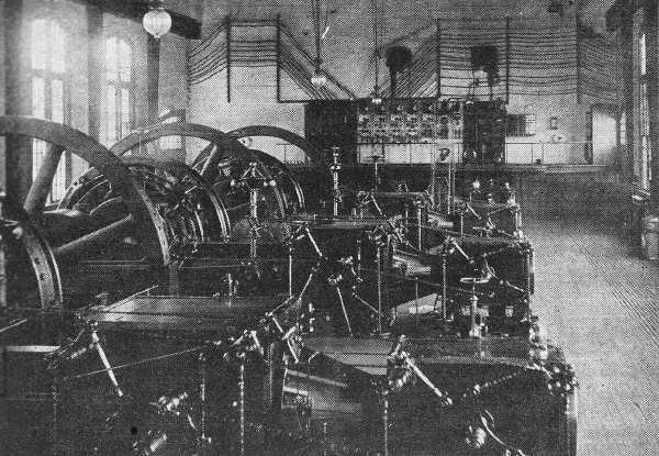 Powerhouse for the Baltimore Belt Line of the Baltimore and Ohio Railroad, part of the first mainline railroad electrification in 1895. Photo from 1910, when the B&O installed these rotary converters having a combined capacity of 5,000 kw, used to convert 13,200-volt, 3 phase, 25-cycle AC to 675 volts DC. In 1936, these rotary converters were replaced by mercury arc rectifiers.